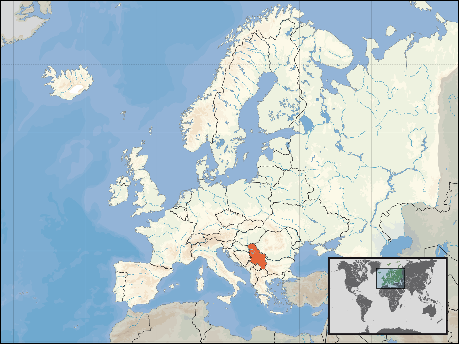 Europe location Serbia